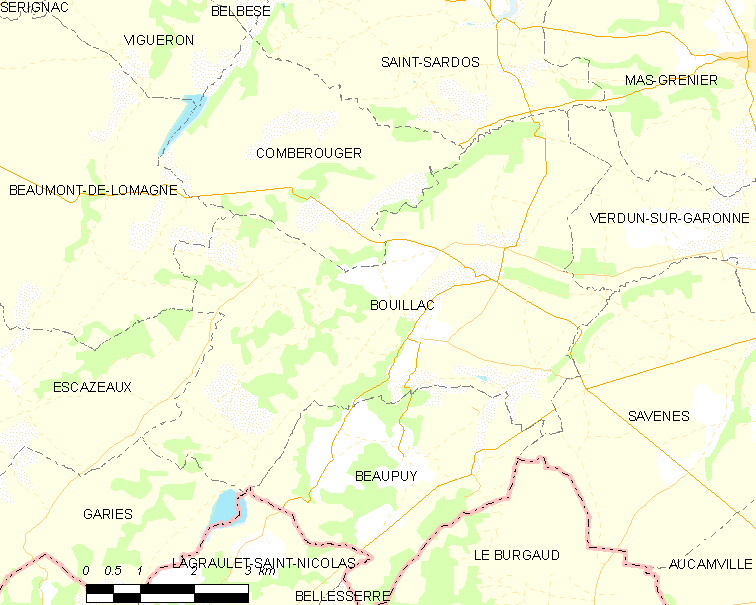 Map of French municipality Bouillac